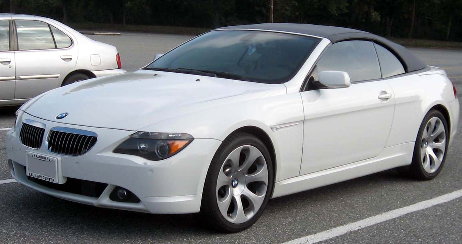 BMW 650i photographed in Hyattsville, Maryland, USA.